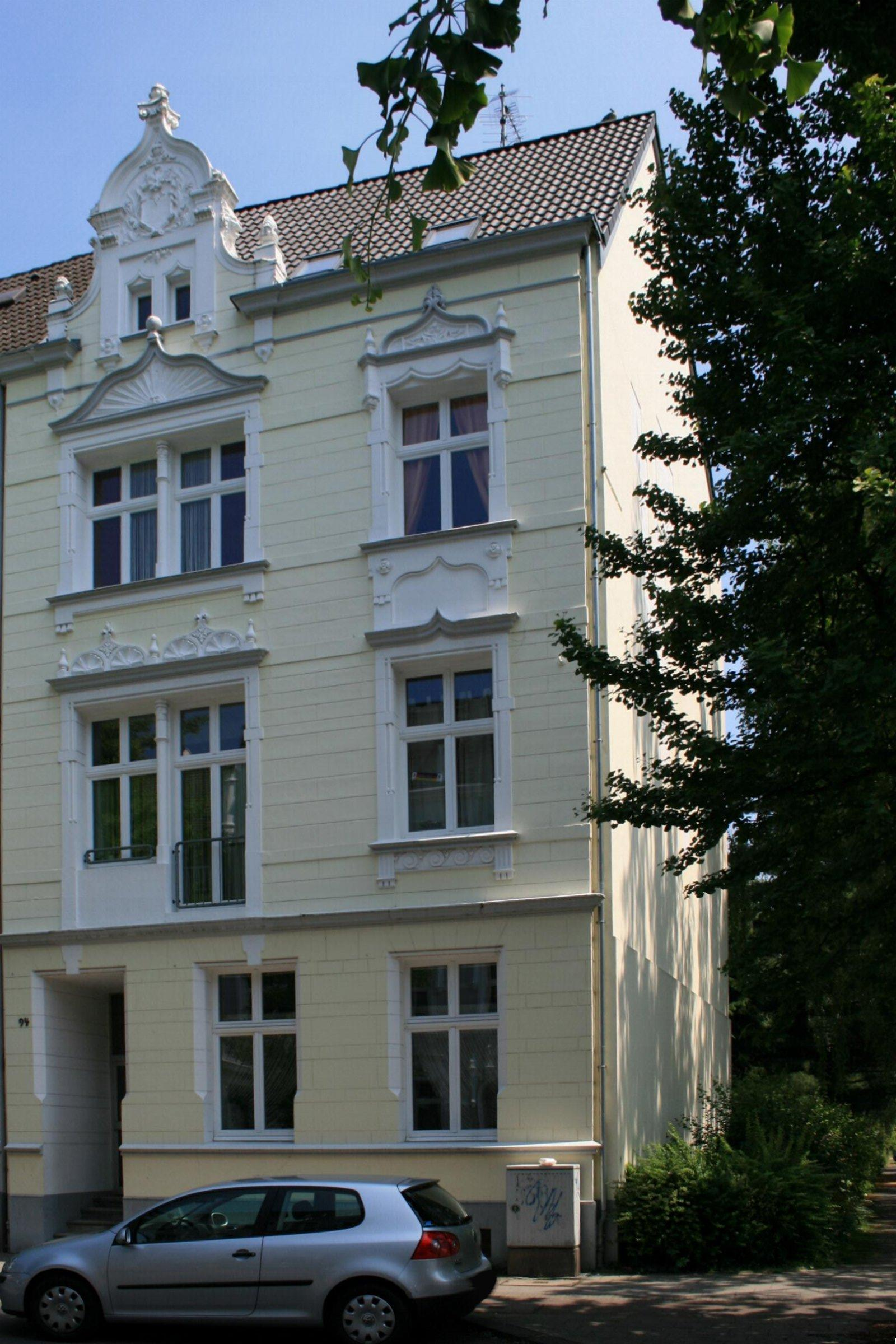 Cultural heritage monument No. B 086 in Mönchengladbach